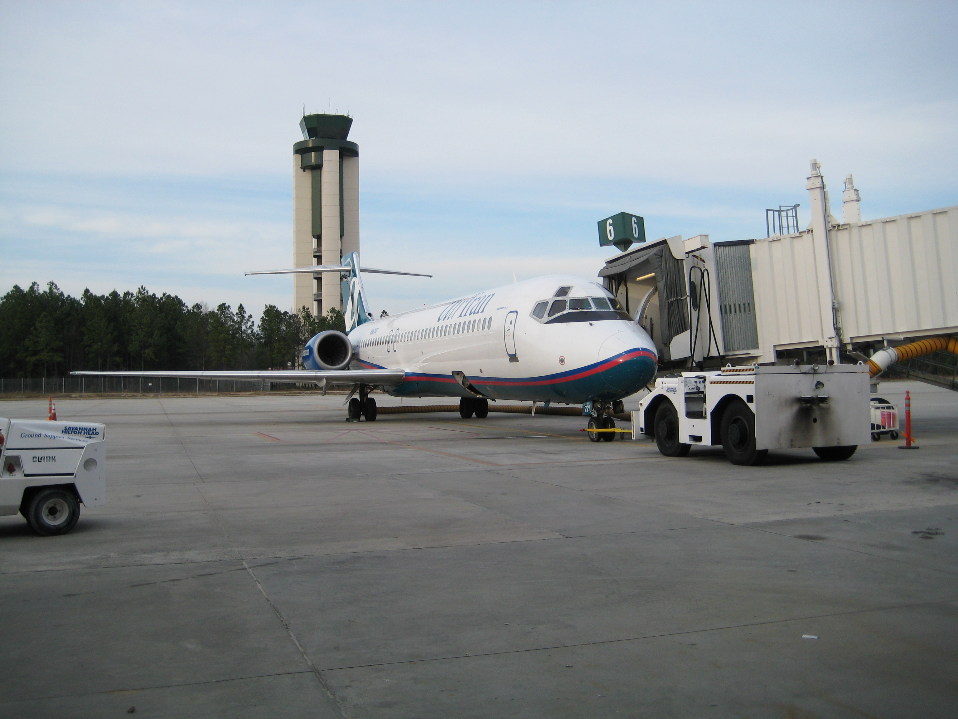 Airtran Boeing 717 at Savannah Hilton Head Int.